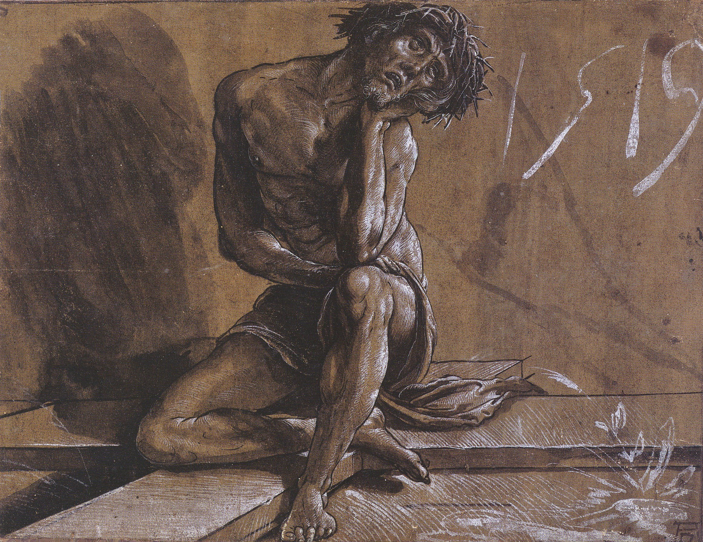 Christ at Rest. Pen and ink and brush, washes, white heightening, on ochre prepared paper, 15.8 × 20.7 cm, Berlin State Museums. Holbein here portrays the Pensive Christ, resting briefly before his crucifixion. in the words of art historian Christian Müller, "The propped-up head is thus not only an expression of exhaustion but also a gesture of grief... this portrayal therefore invites the viewer to reflect on the suffering of Christ and arouses a mood of meditative contemplation" (Müller, p. 202).